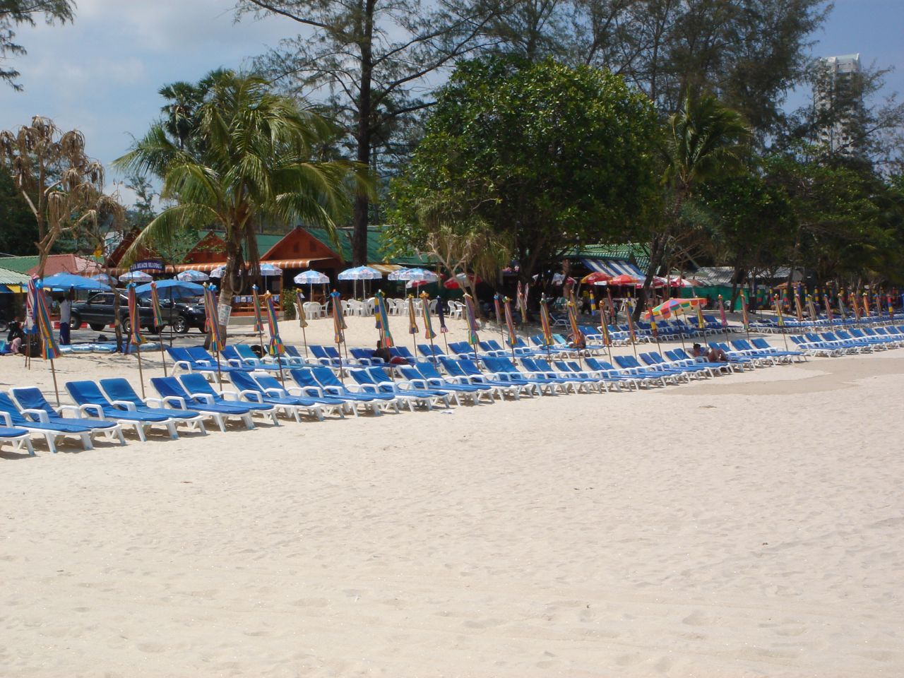 Rows and rows of deck chairs